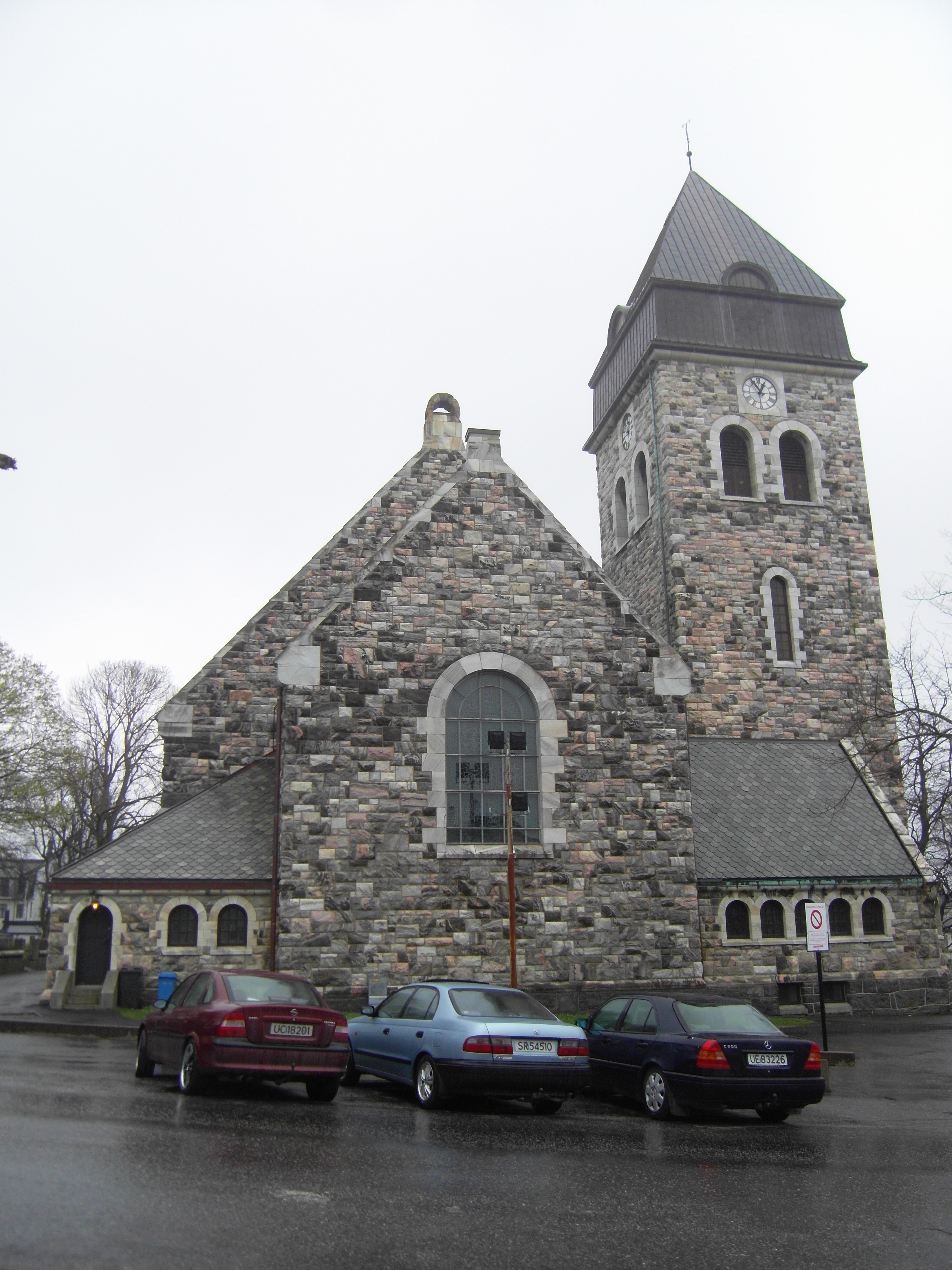 AlesundKirke